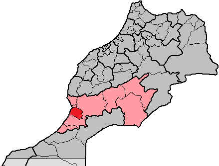 Location of the province Chtouka-Aït Baha within the region Souss-Massa-Drâa, Morocco. In total, Morocco has 16 regions, subdivided into 62 provinces and 13 prefectures.